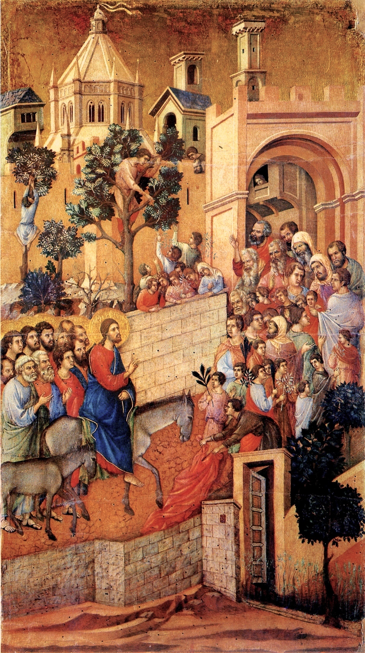 Maesta. Duccio. Christ Entering Jerusalem - back side of Maesta Altar.